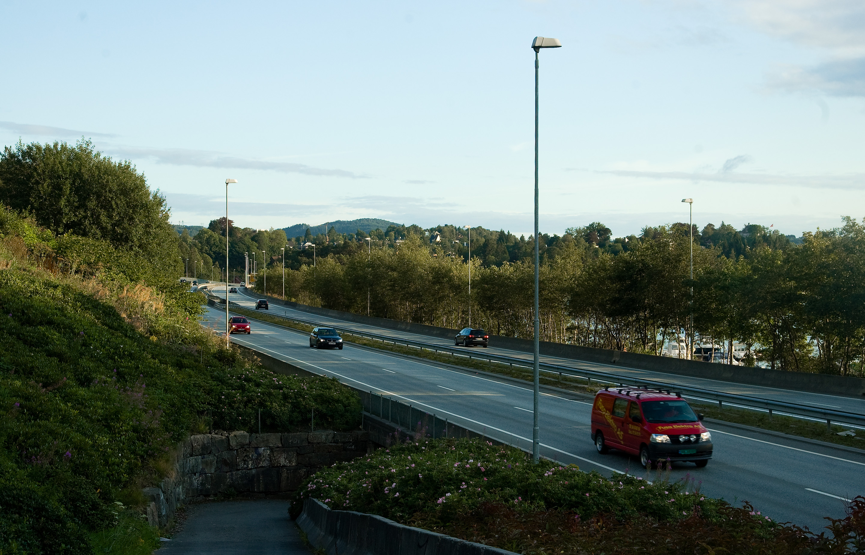 European route E39 south of Gamlehaugen in Fana borough in the city of Bergen, Norway.